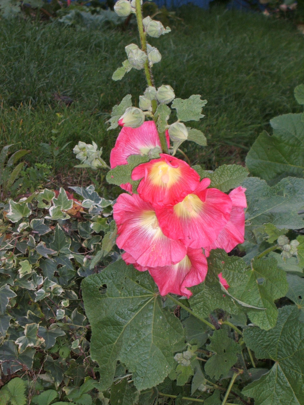 Hollyhock